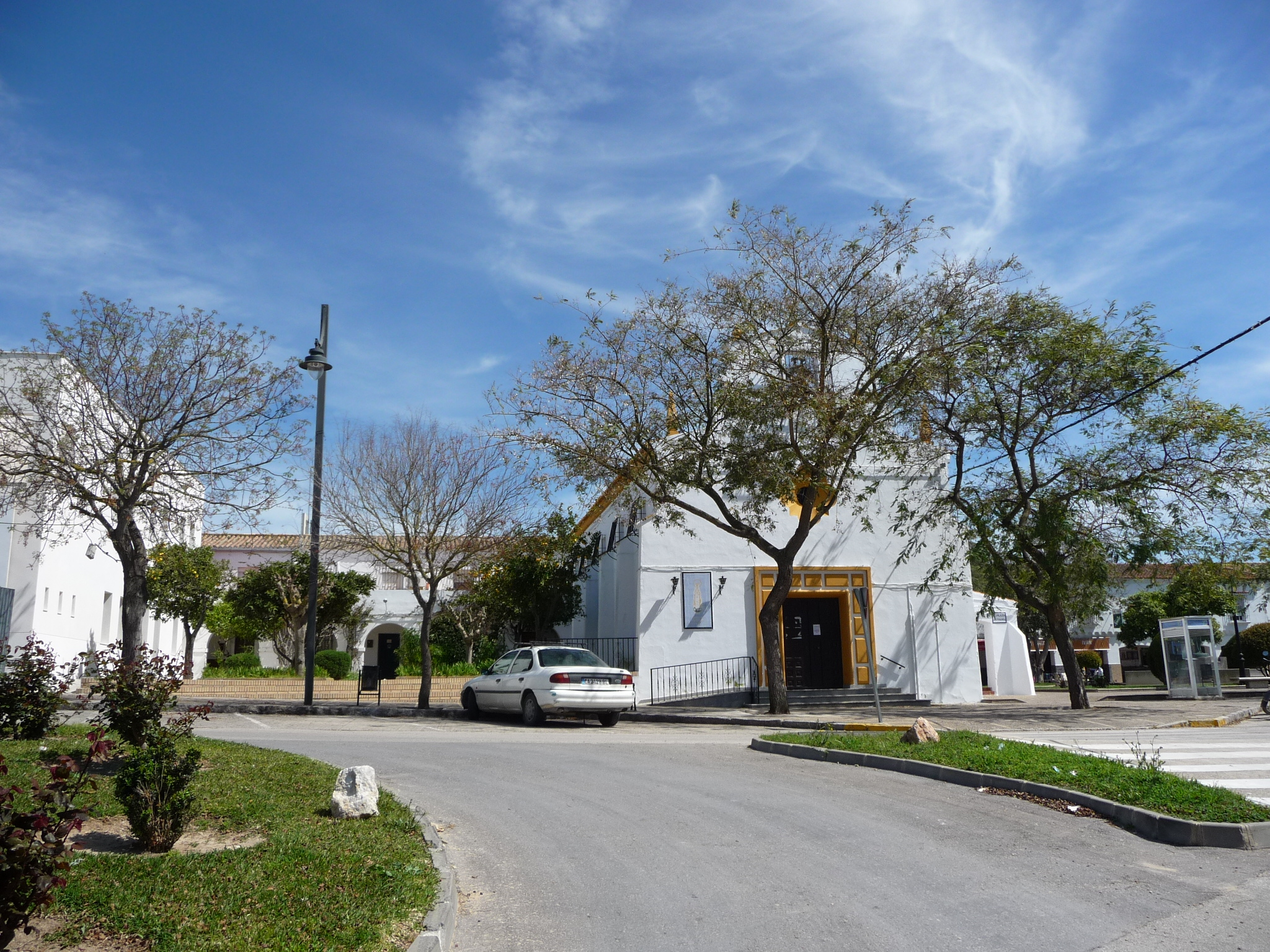 El Torno